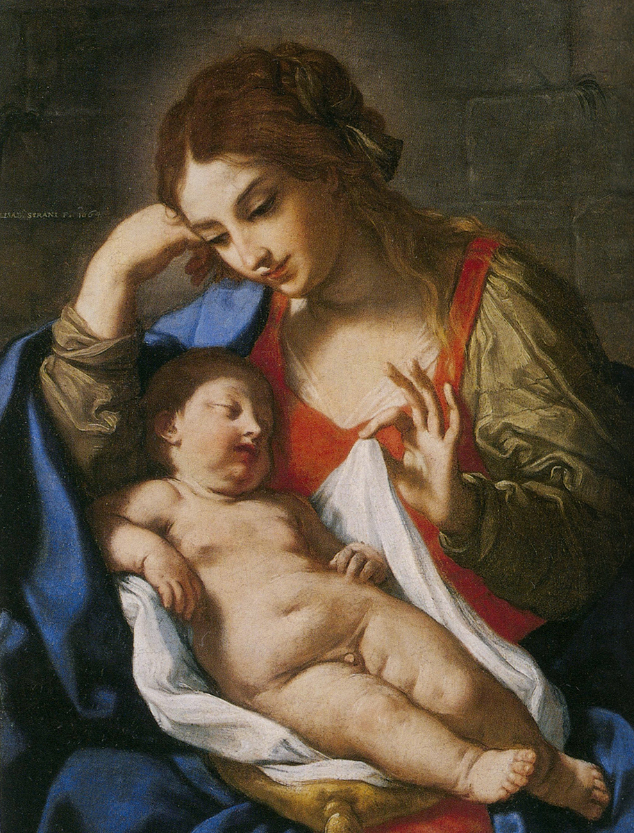 Oil painting of the infant Jesus and his mother, Mary.